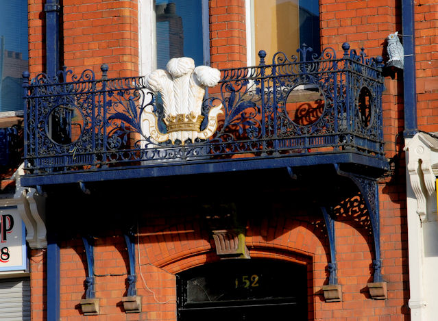 The King Building, Belfast (detail) Balcony ironwork on the King Building (formerly the Musgrave Foundry, Mountpottinger Works) on the Albertbridge Road.